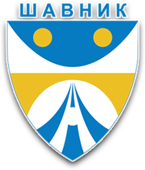 Coat of Arms of Savnik Montenegro